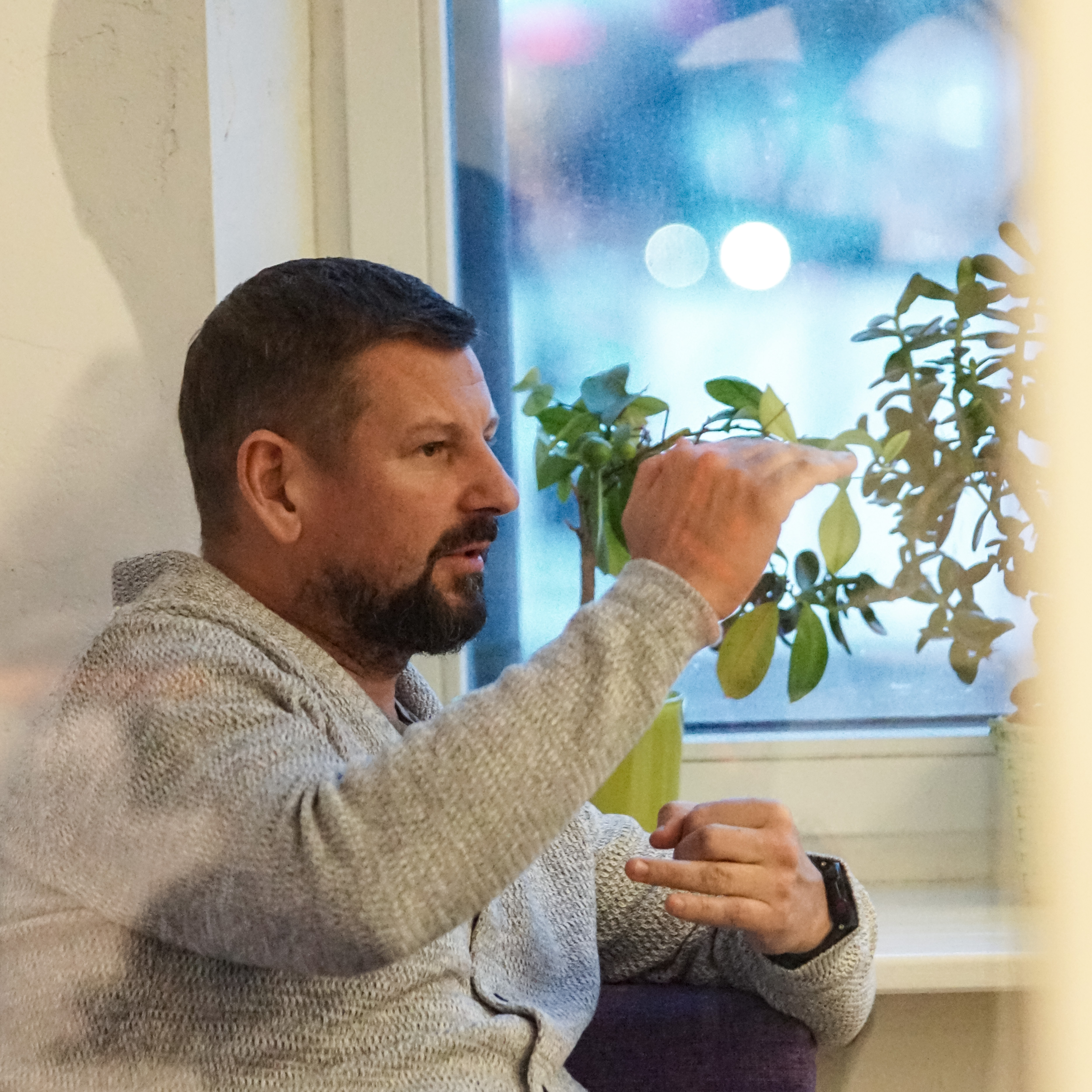 Janis Buks